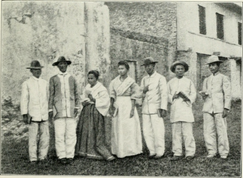 Northern Luzon natives appearing in best local dress in a provincial business center.